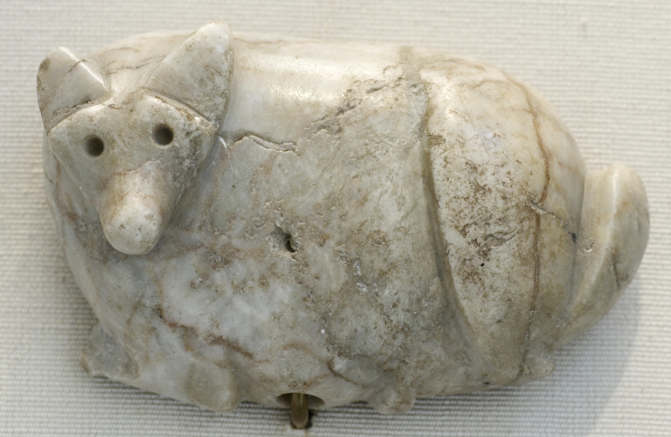 Zoomorphic seal. White marble, found in Telloh (ancient city of Girsu), Uruk Period (4100 BC–3000 BC).